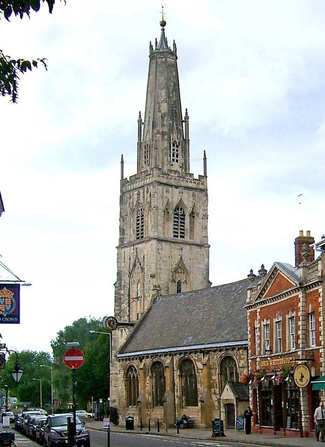 St Nicholas Church, Gloucester